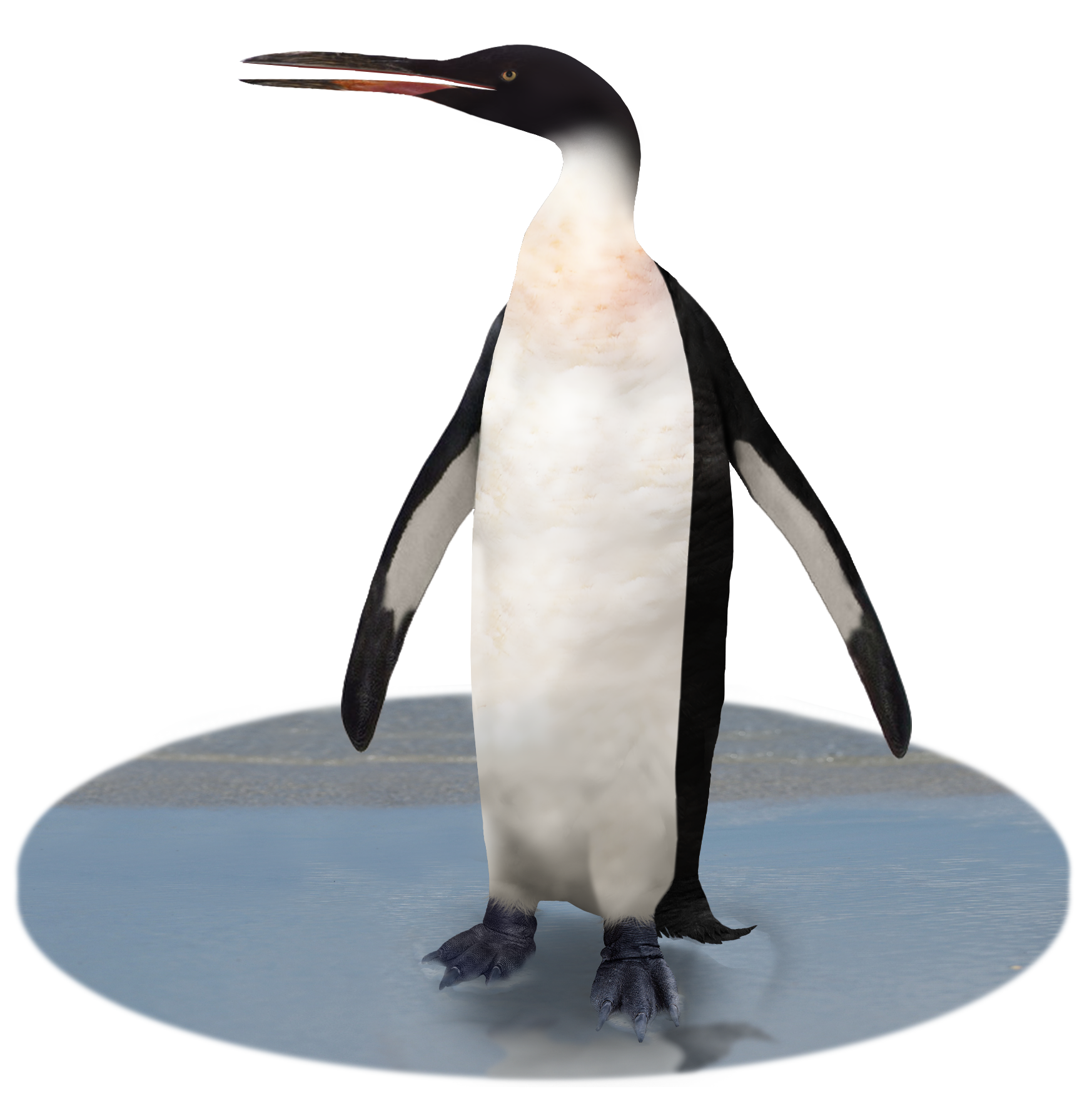 Artist's impression of Kairuku.